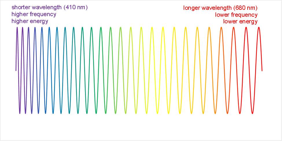 Light travels as waves, and each different color has a different wavelength. This diagram indicates that violet photons have the shortest wavelength and highest frequency of all visible light.